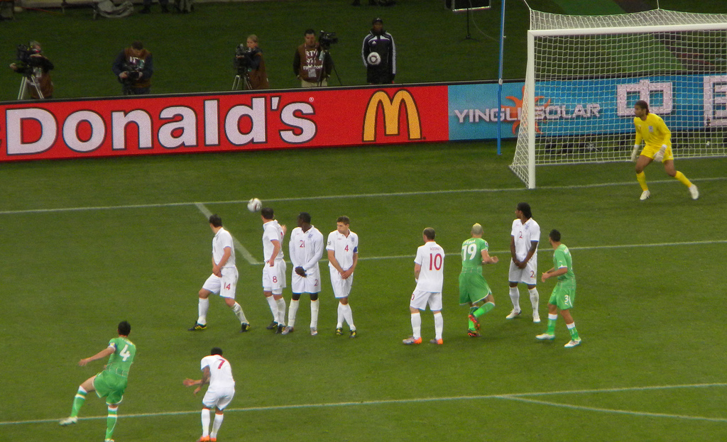 England vs Algeria 2010 FIFA World Cup